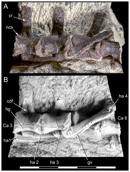 Figure 8: Diluvicursor pickeringi gen. et sp. nov. holotype (NMV P221080), anterior caudal vertebrae. A–B, Ca 3–6: (A) uncoated; and (B) NH4Cl coated, in ventral view. Abbreviations: Ca #, caudal vertebra and position; cdf, centrodiapophyseal fossa; cr, caudal rib; gv, groove; ha #, haemal arch/process and position; hg, haemal groove; ncs, neurocentral suture. Scale bar equals 50 mm.